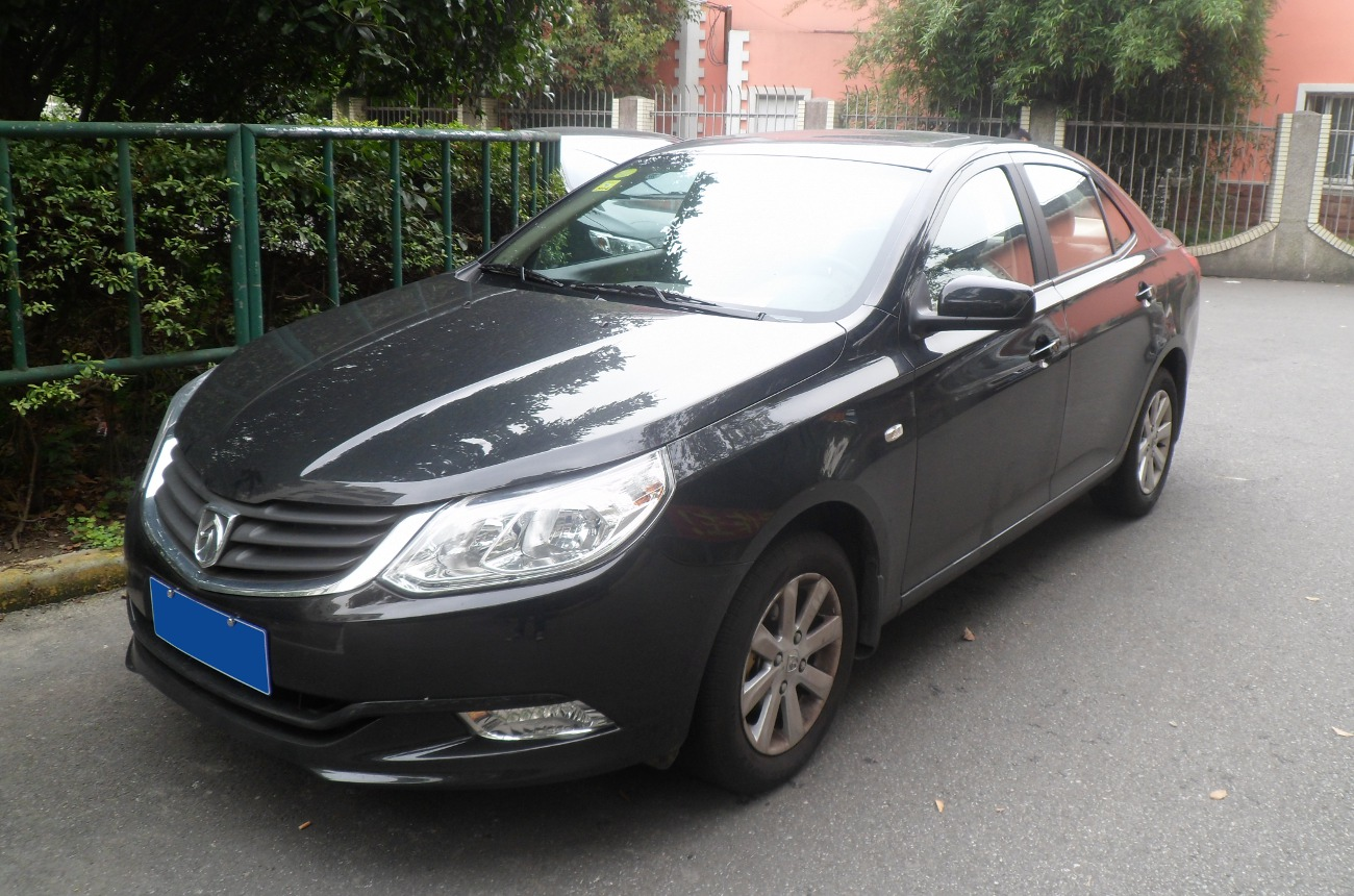 Baojun 630 photographed in Shanghai, China.